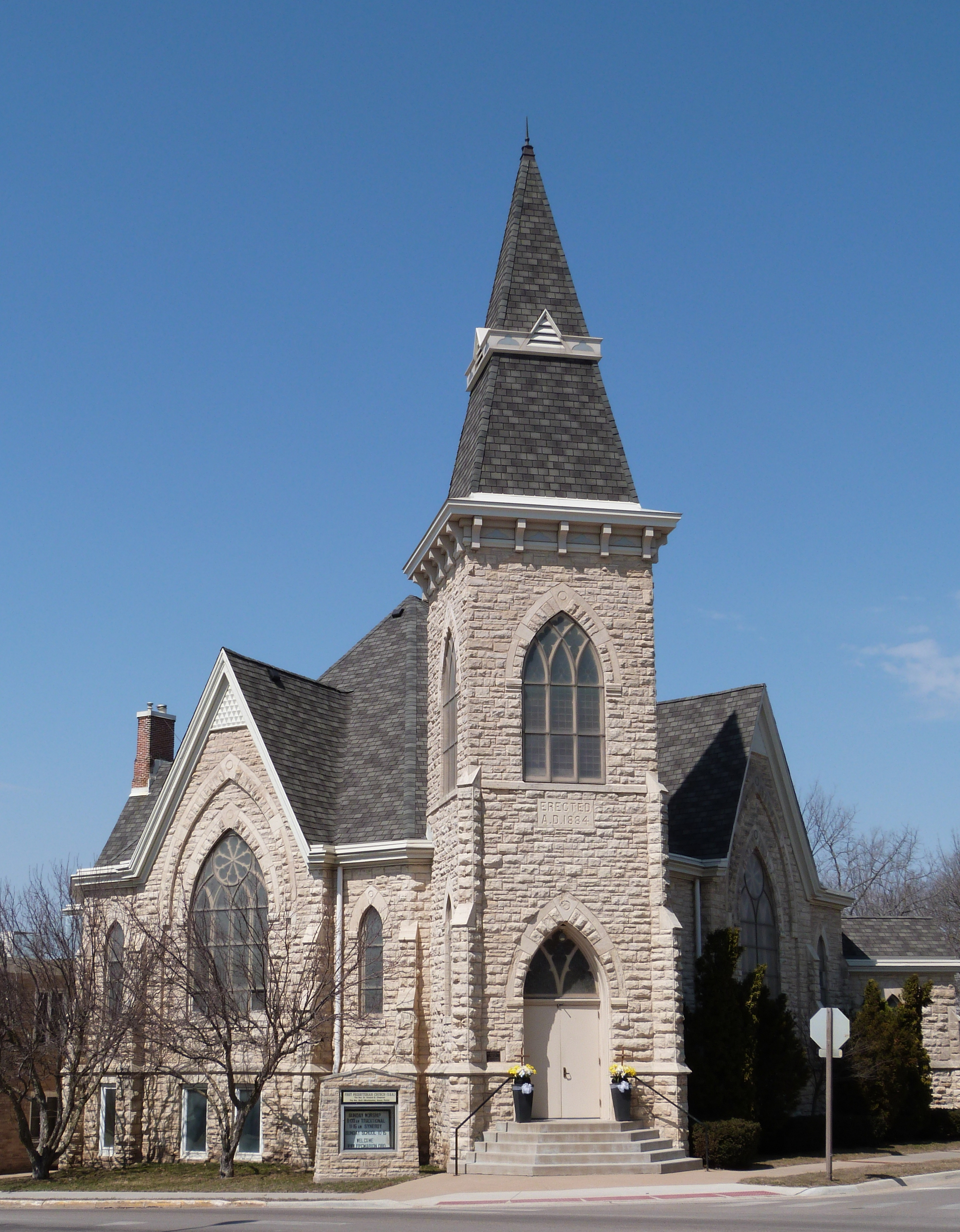 The historic First Presbyterian Church (built 1885), located at 802 12th Street in Marion, Iowa, United States, is listed on the US National Register of Historic Places.